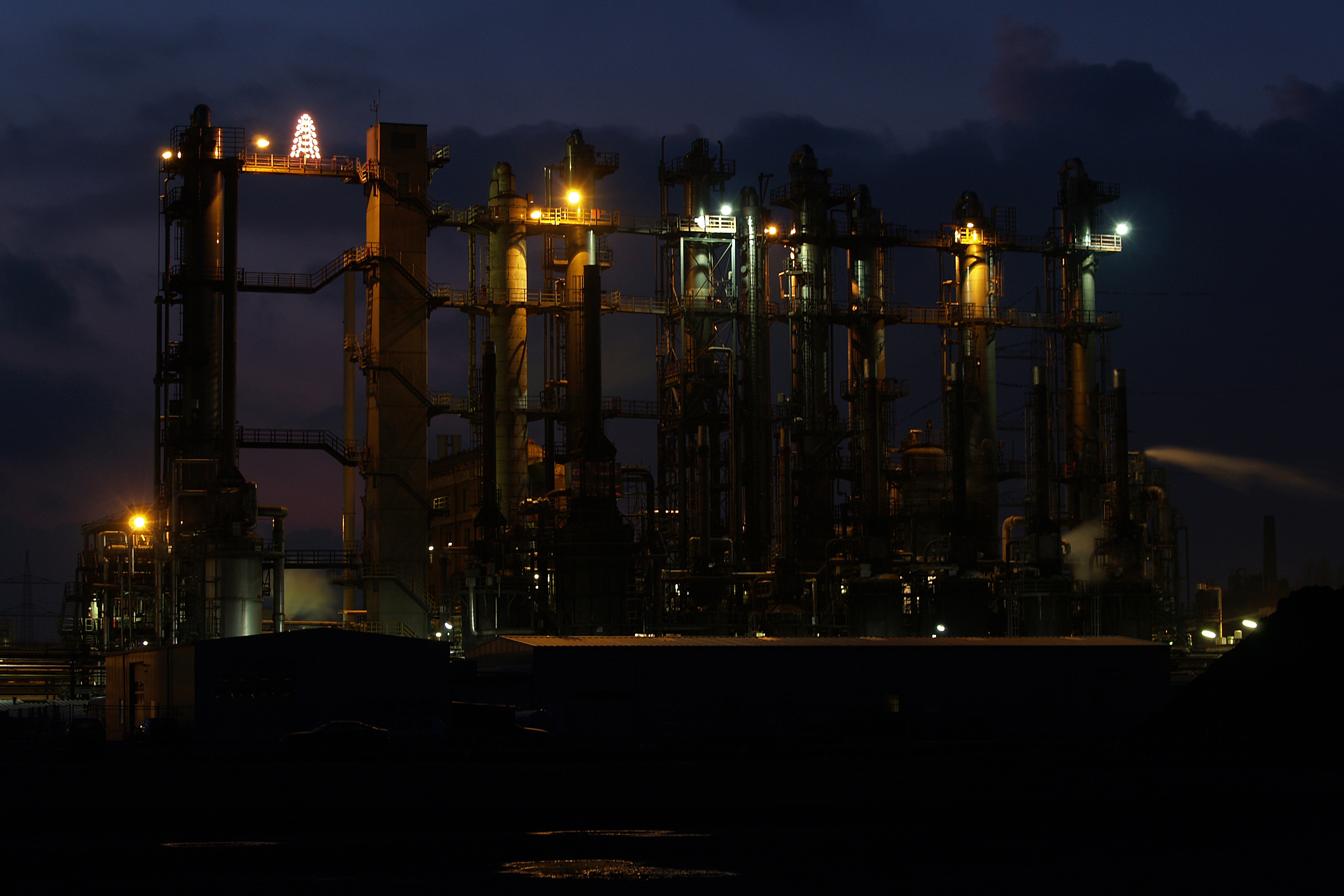 Part of Ruetgers Chemicals GmbH at Castrop-Rauxel, Germany